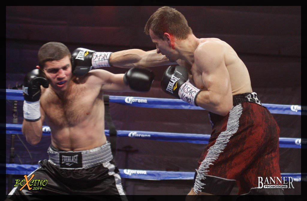 Boxcino Lightweights 2-21-14